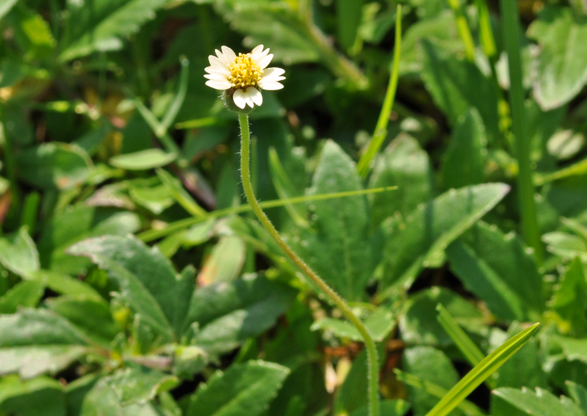 Tridax procumbens, habits. Darmaga, Bogor, West Java.